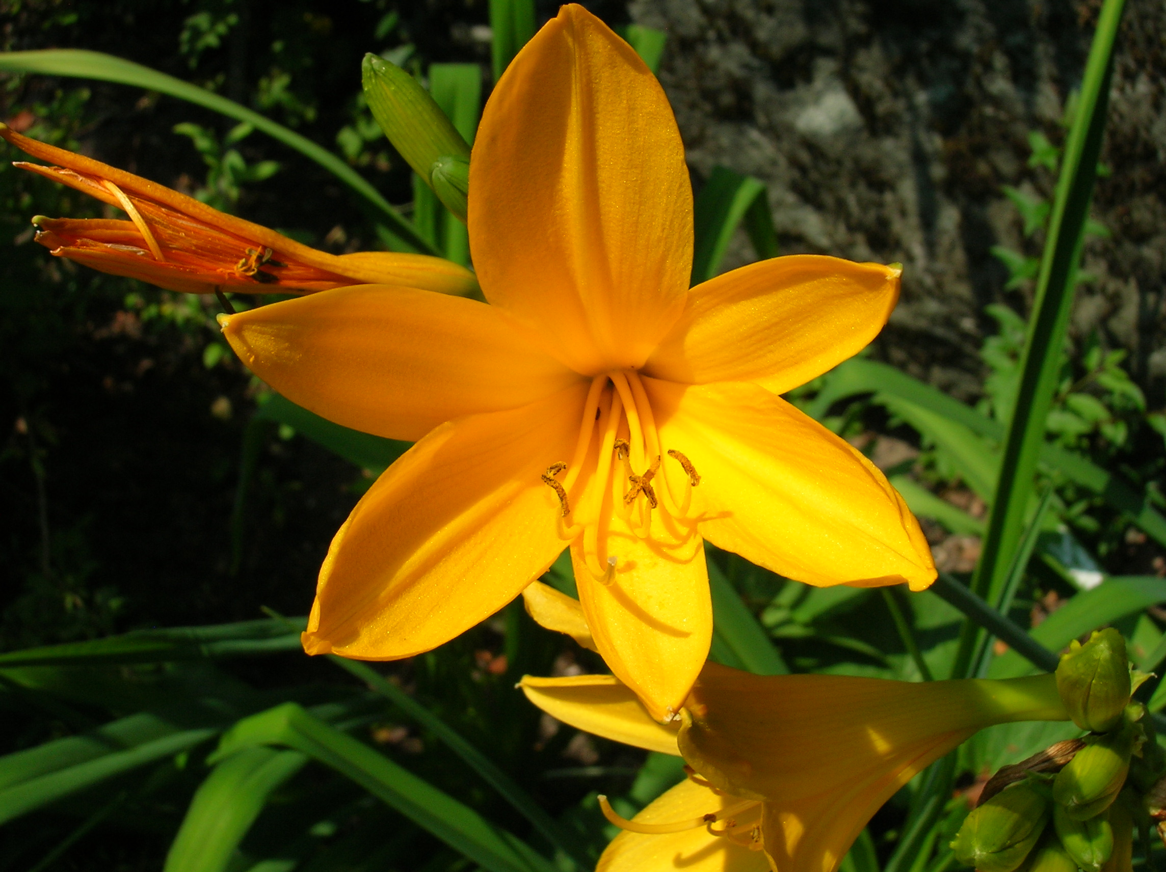 Hemerocallis middendorfii, photo was taken at the Ecological-Botanical Gardens in Bayreuth, Germany